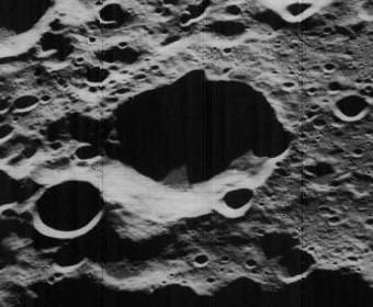 Oblique view of Parsons, on the far side of the moon, facing west.